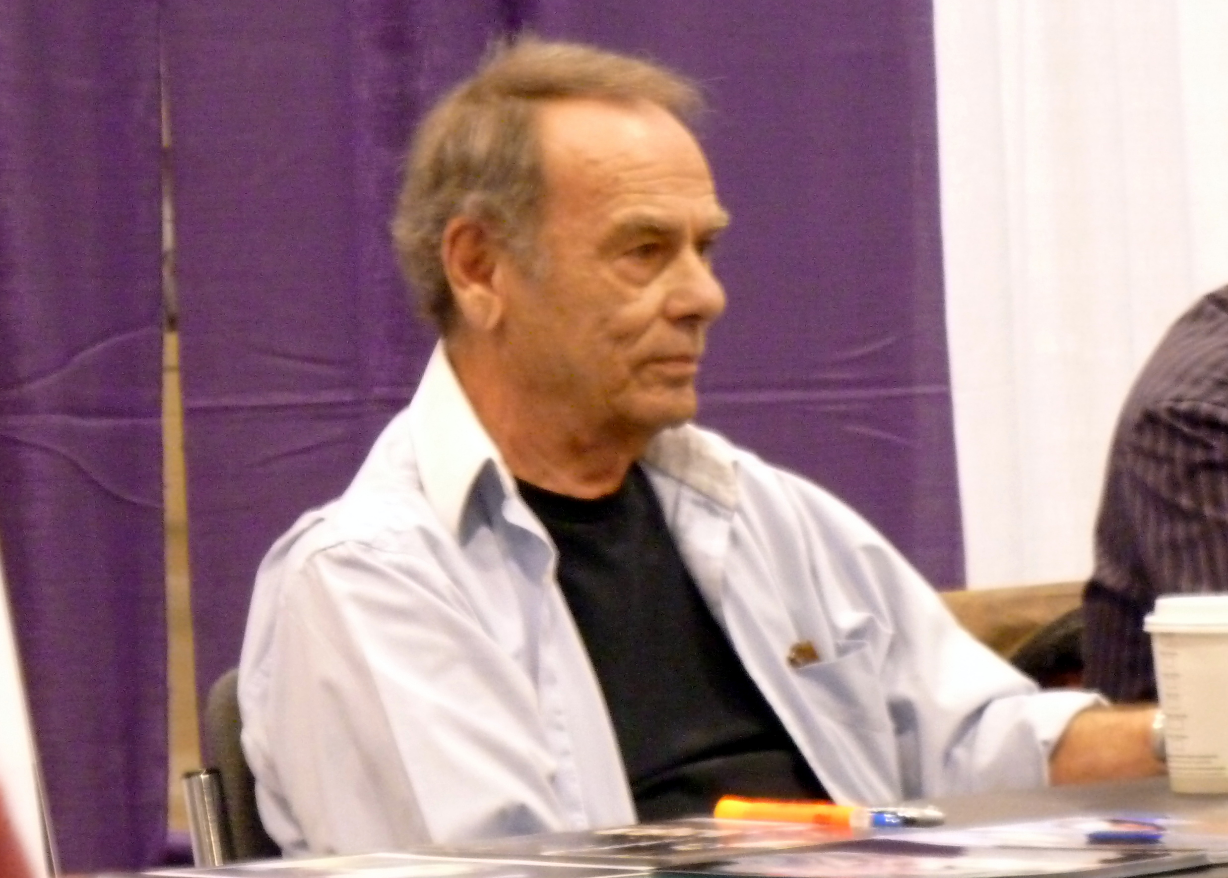 Dean Stockwell at Wizard World Toronto 2012